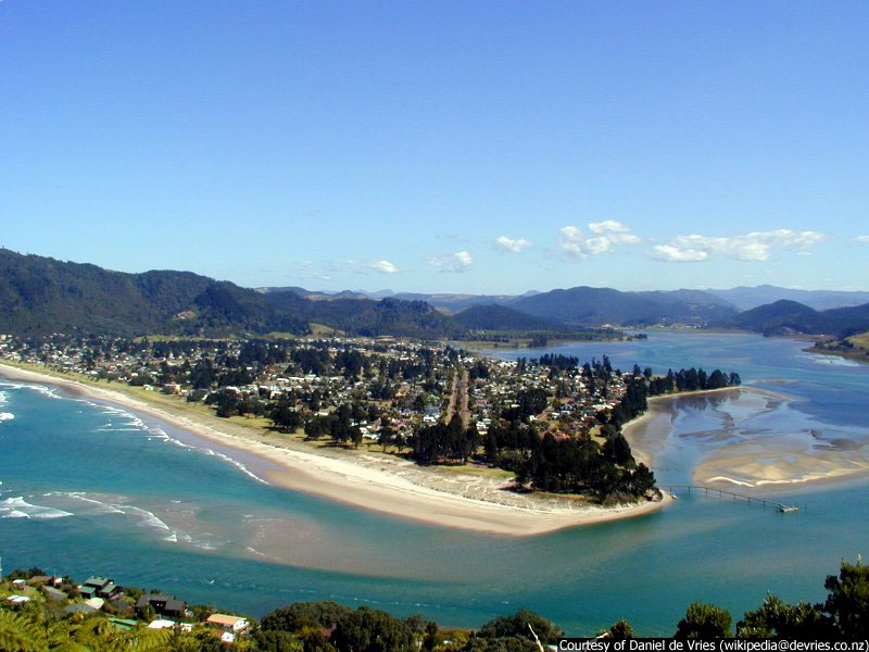 A picture of Pauanui Beach on the Coromandel Peninsula of New Zealand's North Island. This photo was taken by Daniel de Vries from the top of Vista Paku on the Tairua side of the estuary in the summer of 2001.